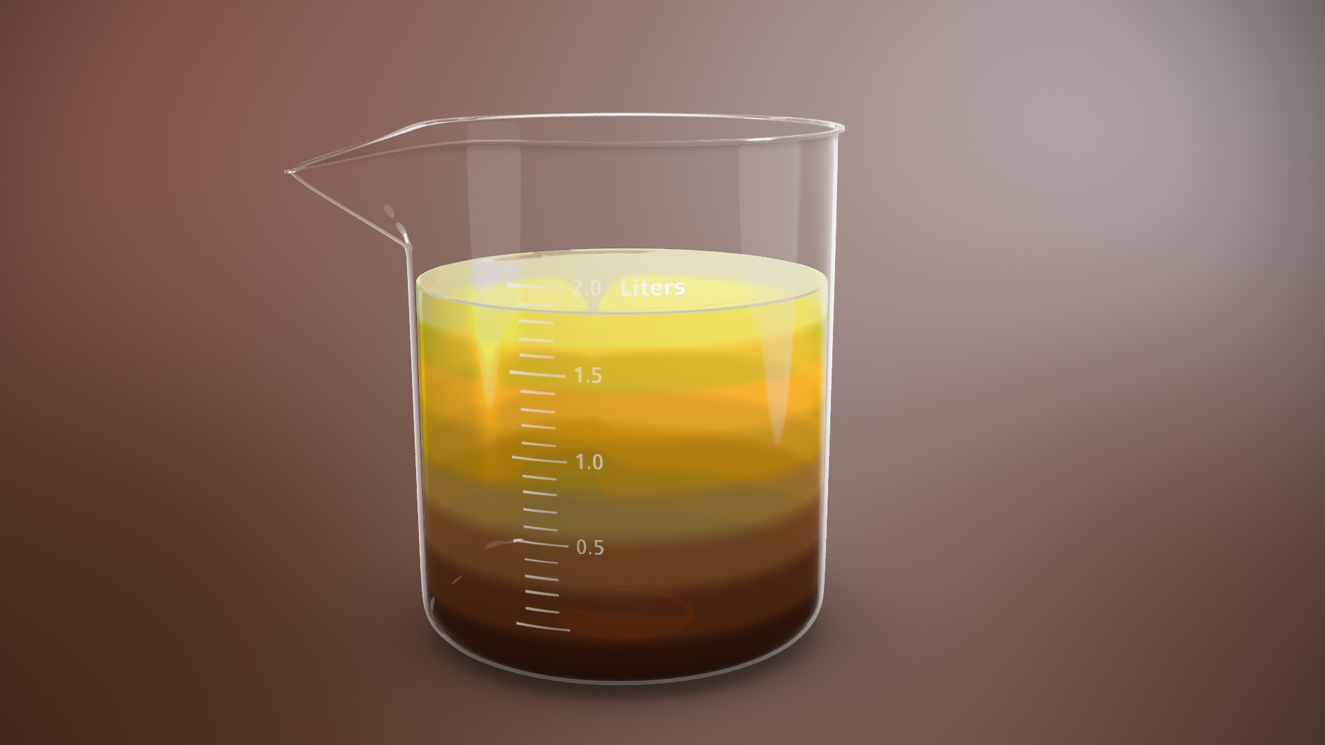 Color change in Urine helps in Clinical urine tests.